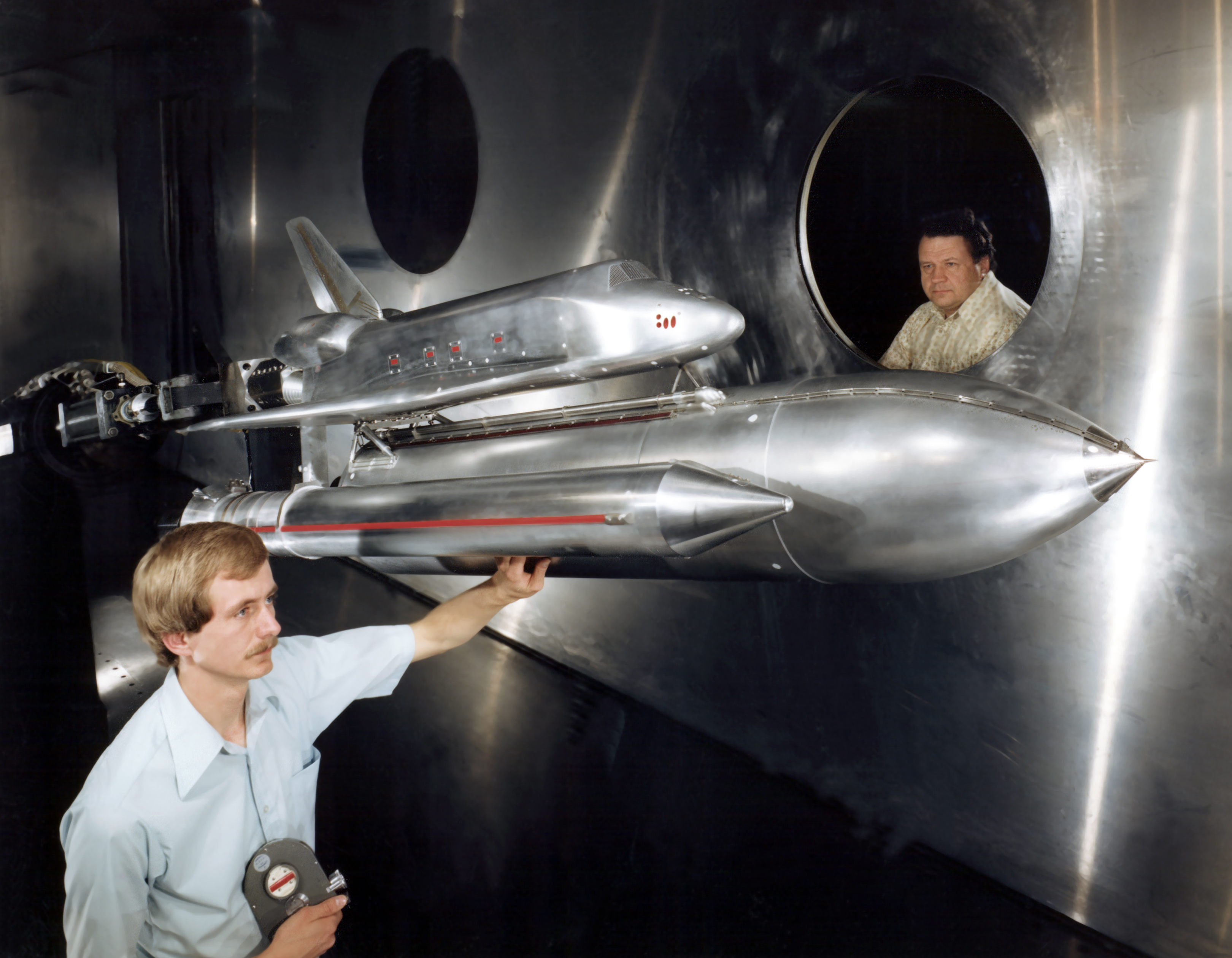 William Gerstenmaier examines a Space Shuttle model in the wind tunnel at Lewis Research Center in Cleveland while Mo Raita looks on. Image ID: C-1978-1499